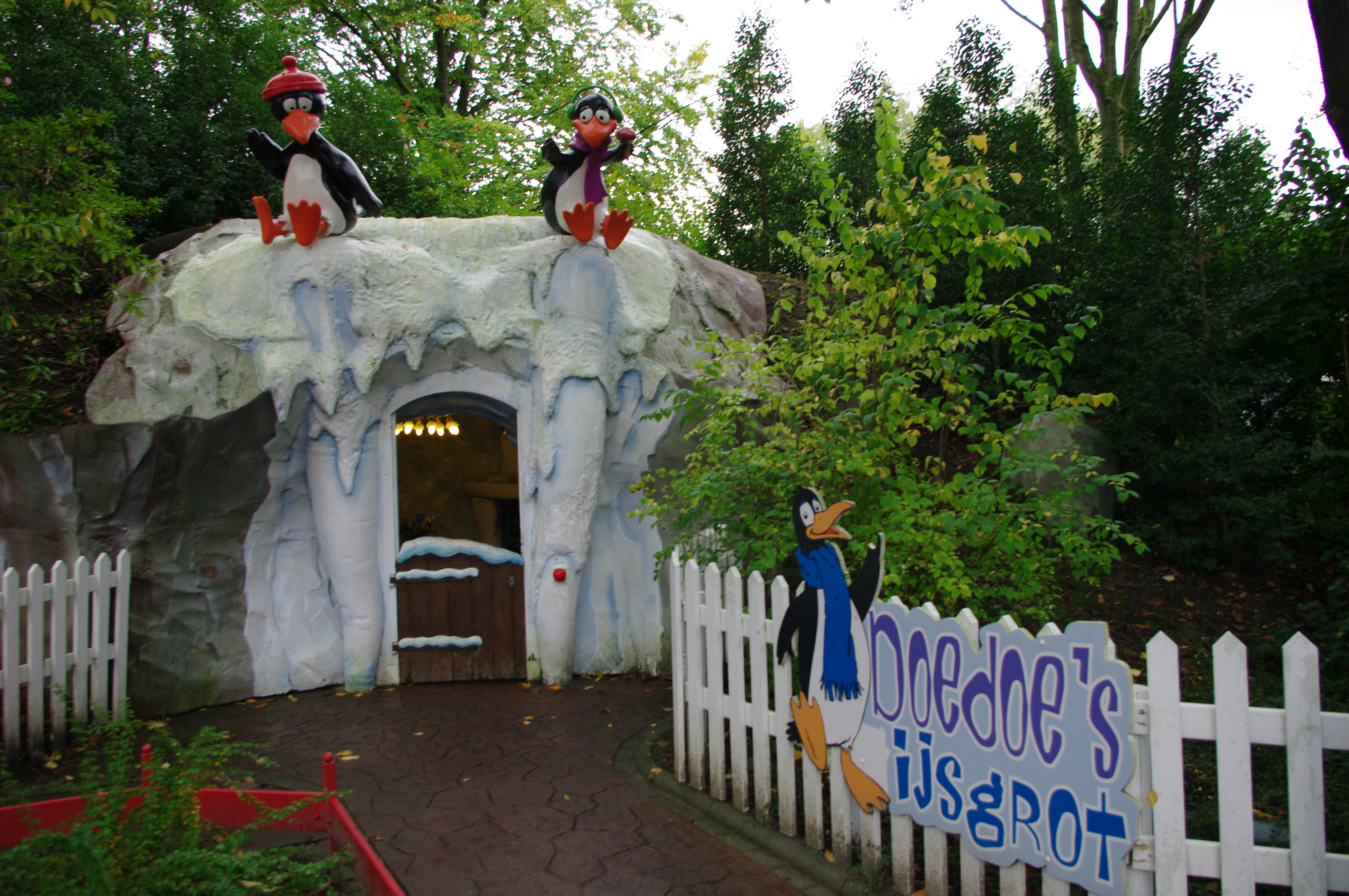 Doedoe's ijsgrot in the Dutch themepark Walibi World.